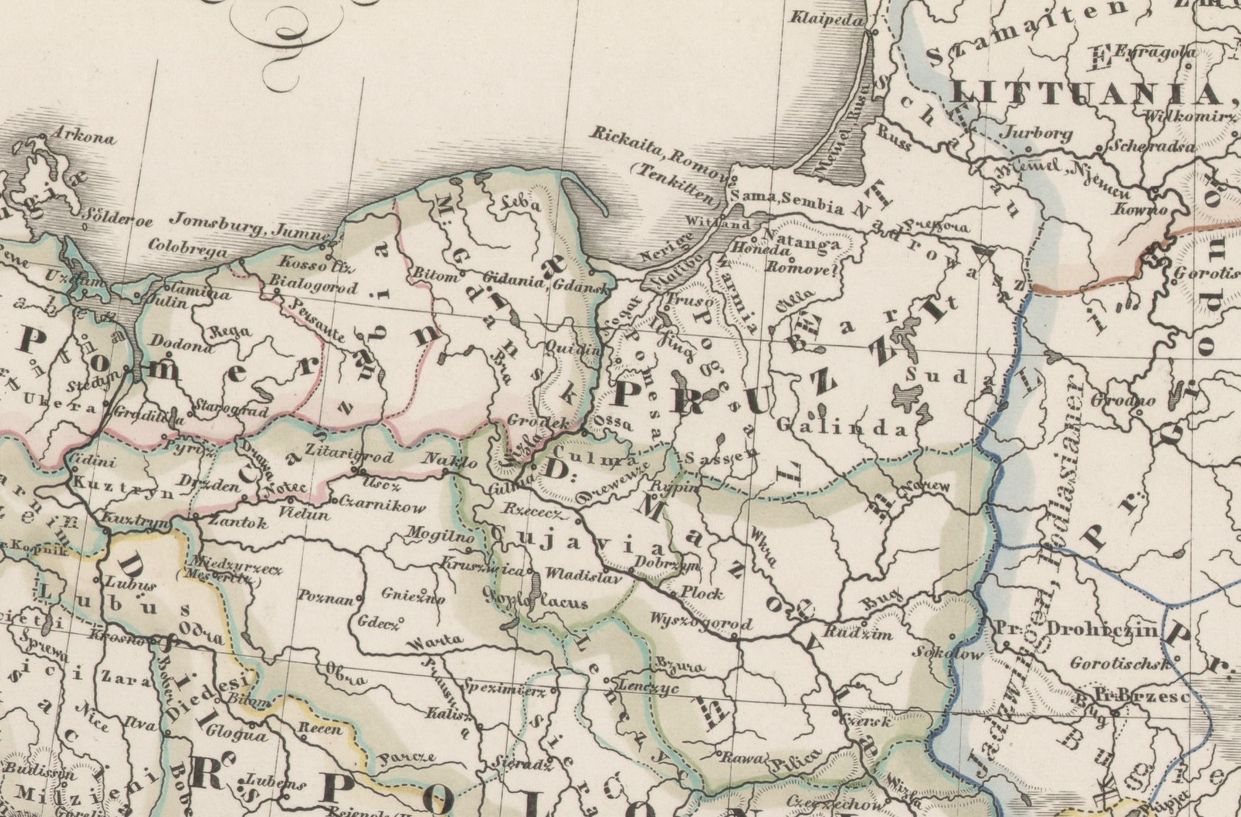 Pomerelia: Slavic people until 1125